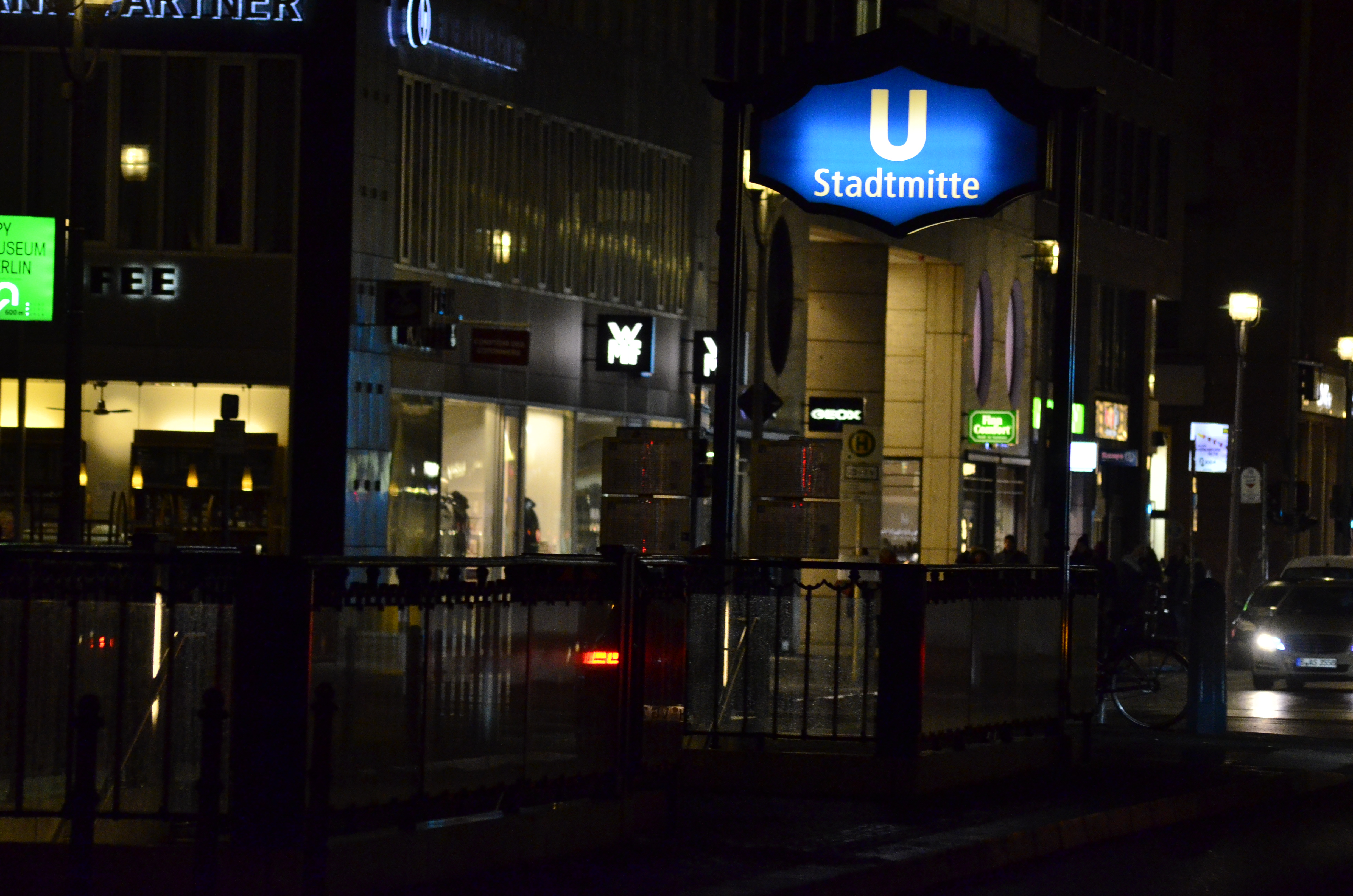 Entrance to the train station "Stadmitte" in the downtown of Berlin, Germany